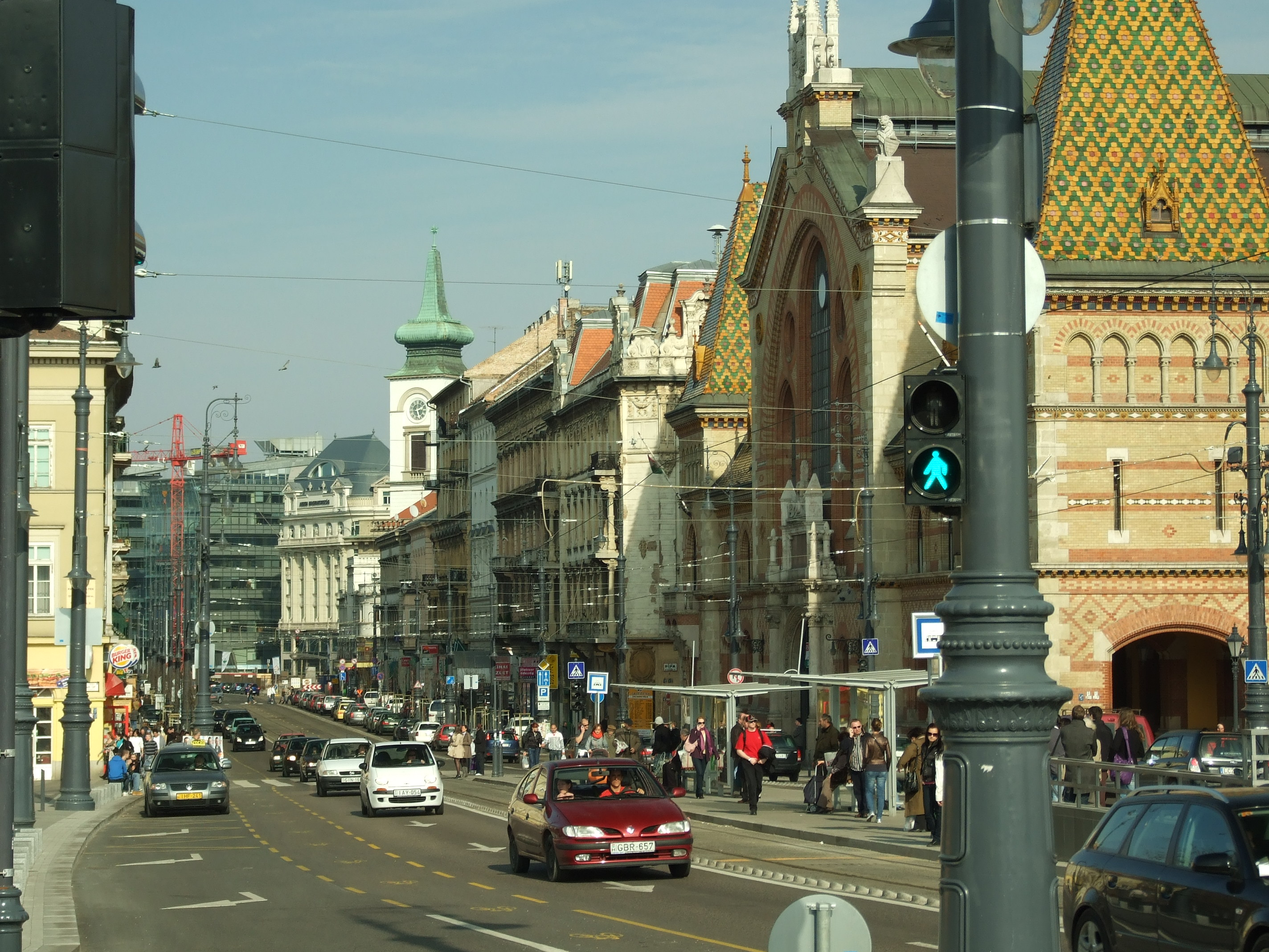 Fővám tér square in Budapest, Hungary